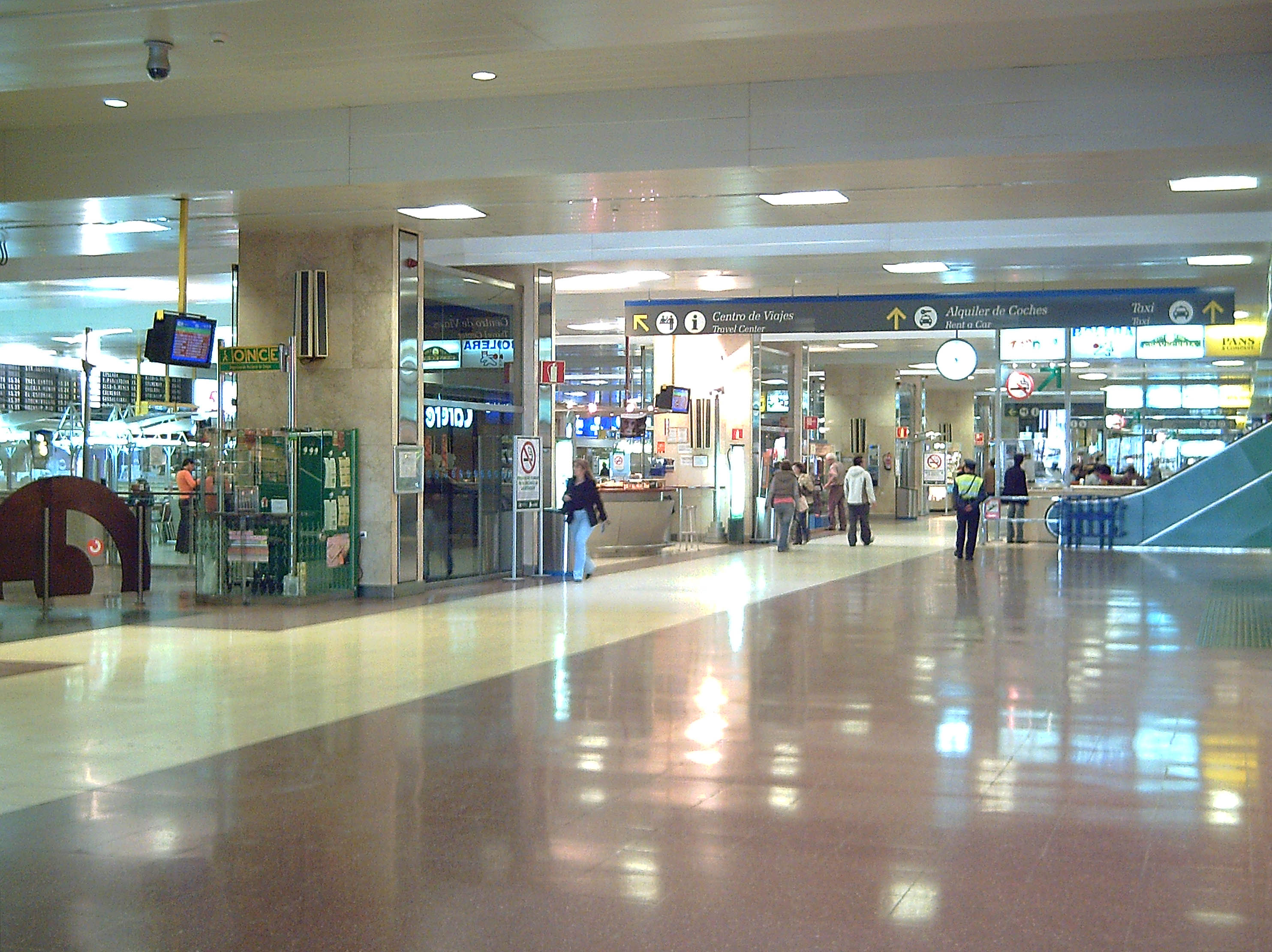 Interior of the Chamartín railway station in Madrid (Spain).